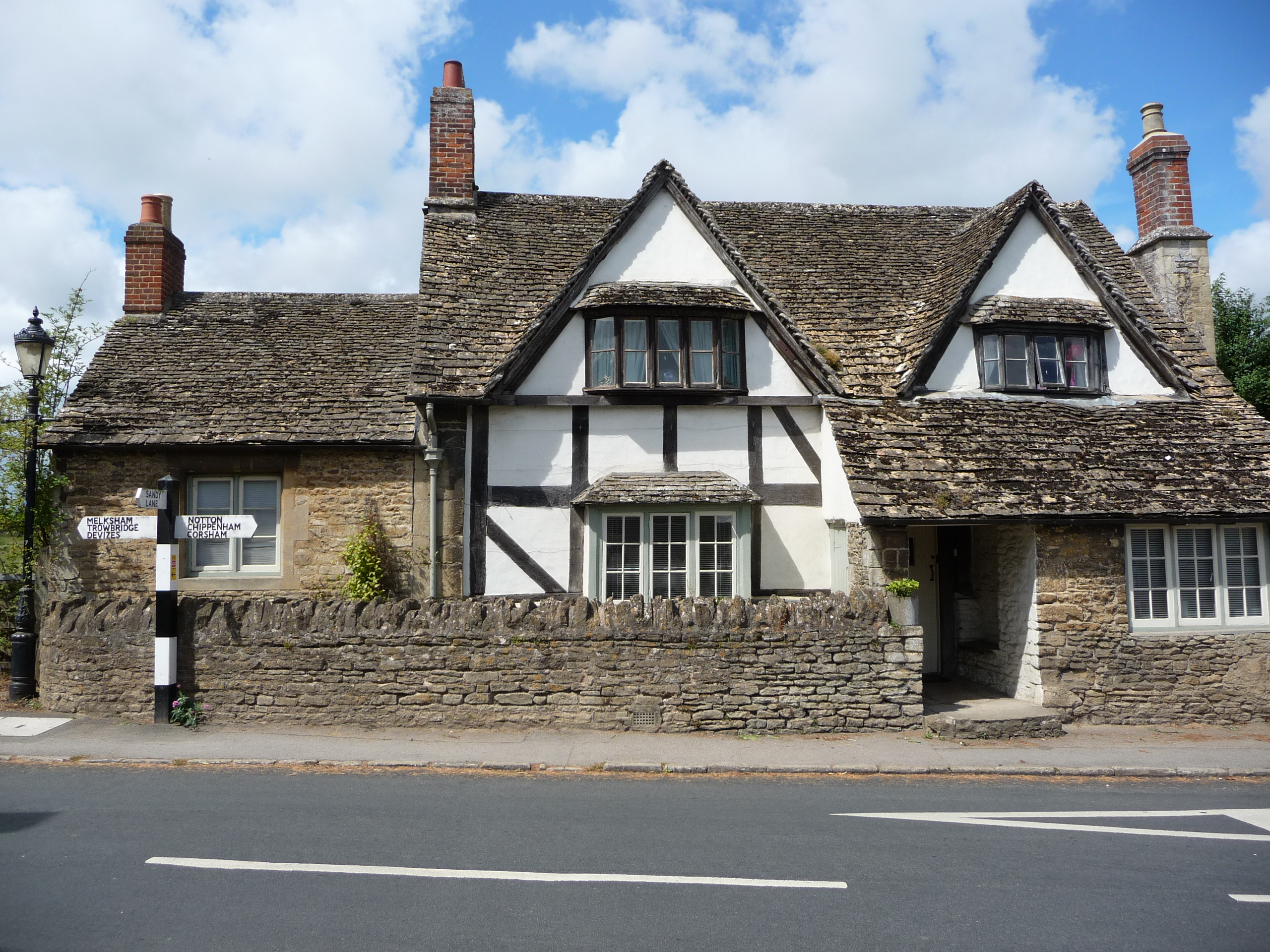 Houses in Lacock